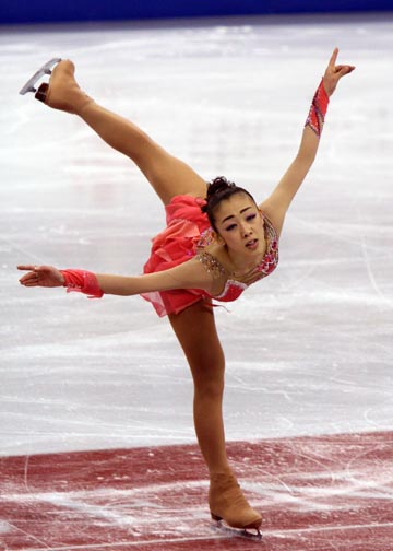 Fumie Suguri performs a forward spiral as part of her spiral sequence during her short program at the 2008 Skate Canada International.